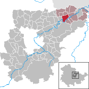 Wickerstedt in Thuringia - District Weimarer Land